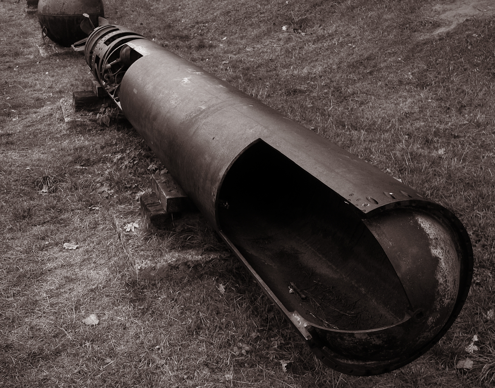 Torpedo (without a warhead)